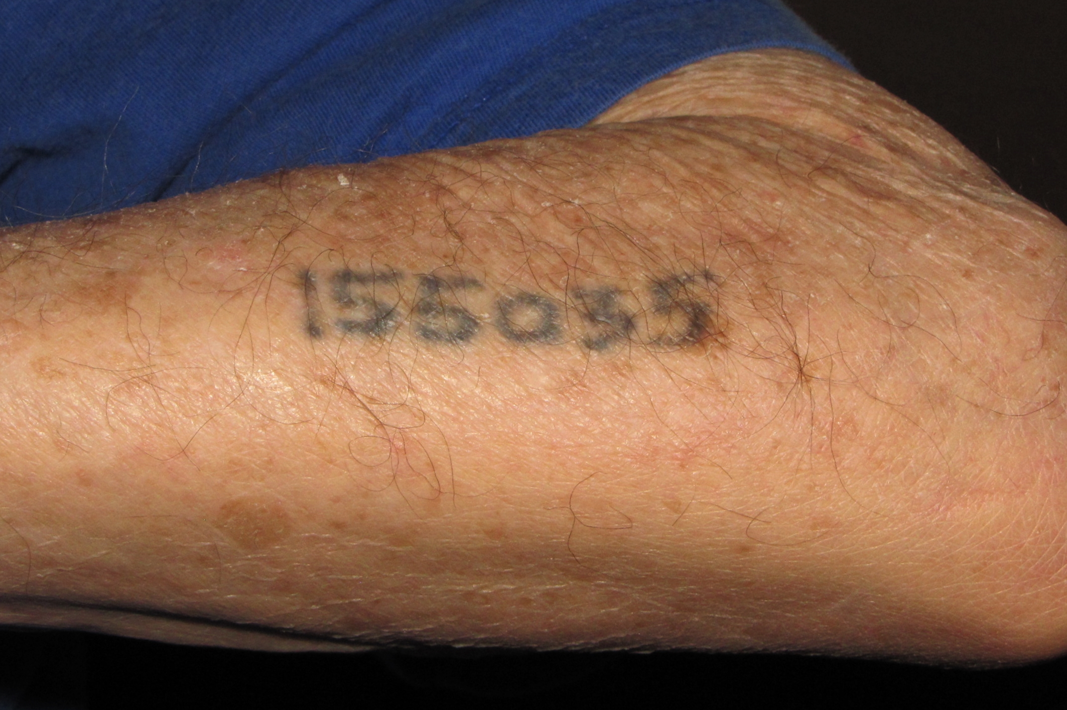 Jerzy Kamieniecki (born 1920) Prisoner of Auschwitz, Birkenau, Matthausen, Gusen shows tattoo with camp number